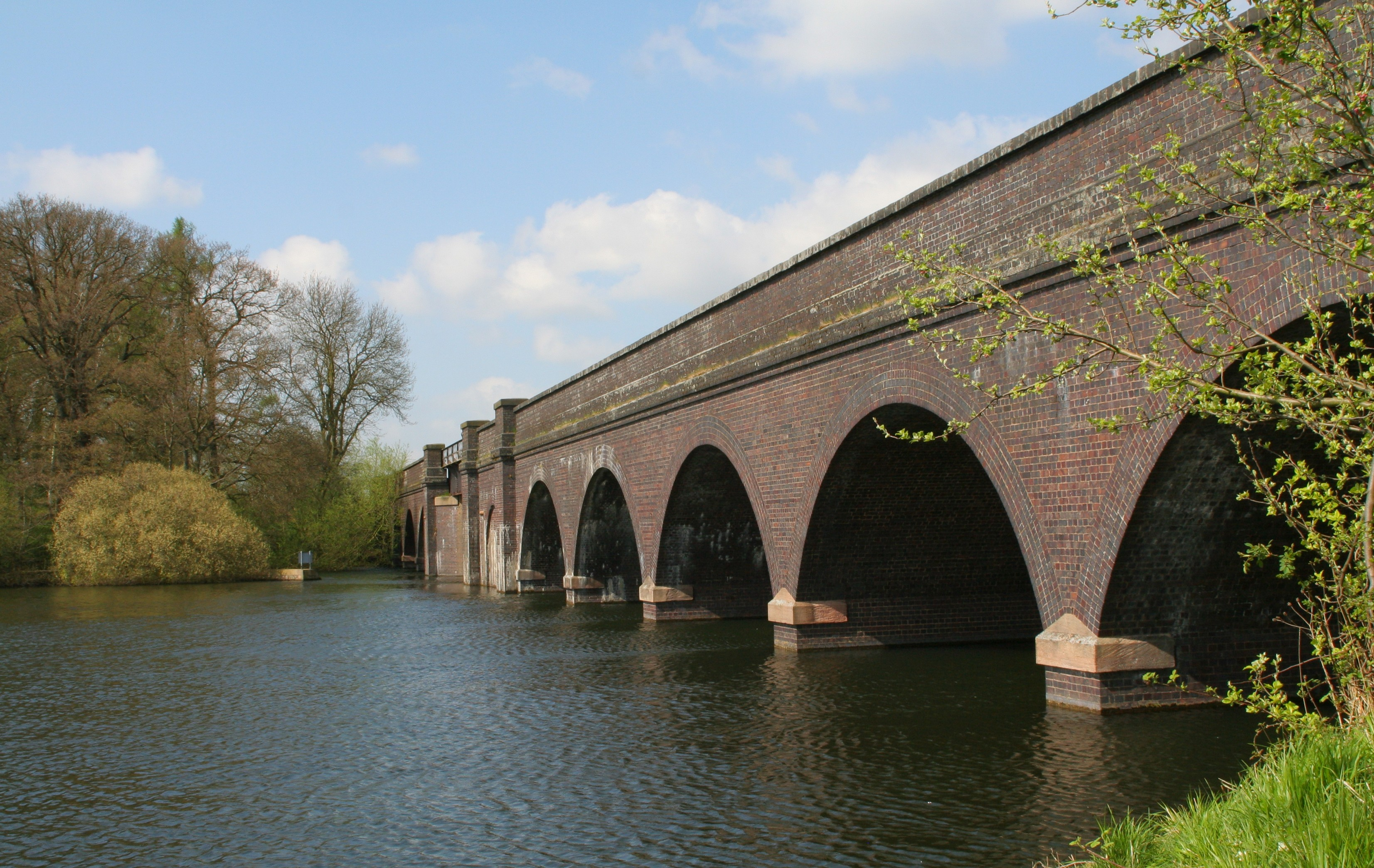 Well actually this is just the South viaduct - there is a bit of dry land on Brazil Island between them.